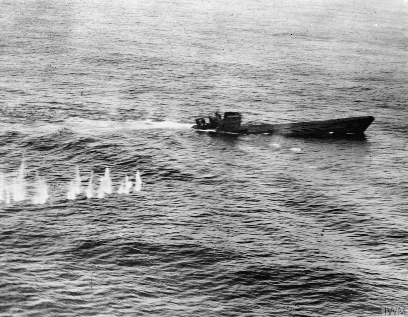 U-boat Warfare 1939-1945 U-boat Losses: U 426 a Type VIIC submarine, down by the stern and sinking, after attacks by a Short Sunderland flying boat.